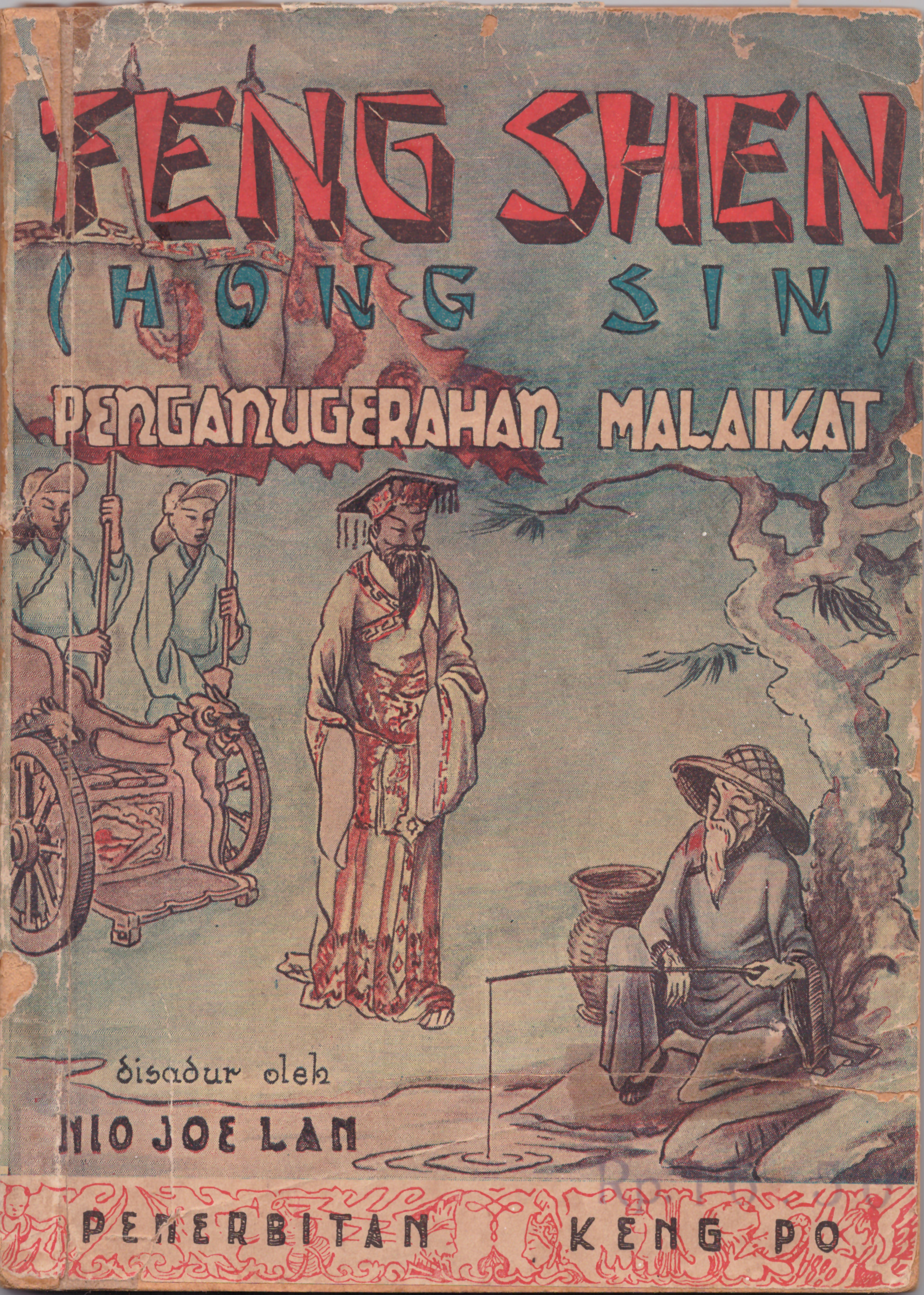 A book cover from the second part of Fengshen (Investiture of the Gods) written in Bahasa Indonesia. Adapted by Chinese-Indonesian author, Nio Joe-lan. Publisher: Keng Po (1951's work).